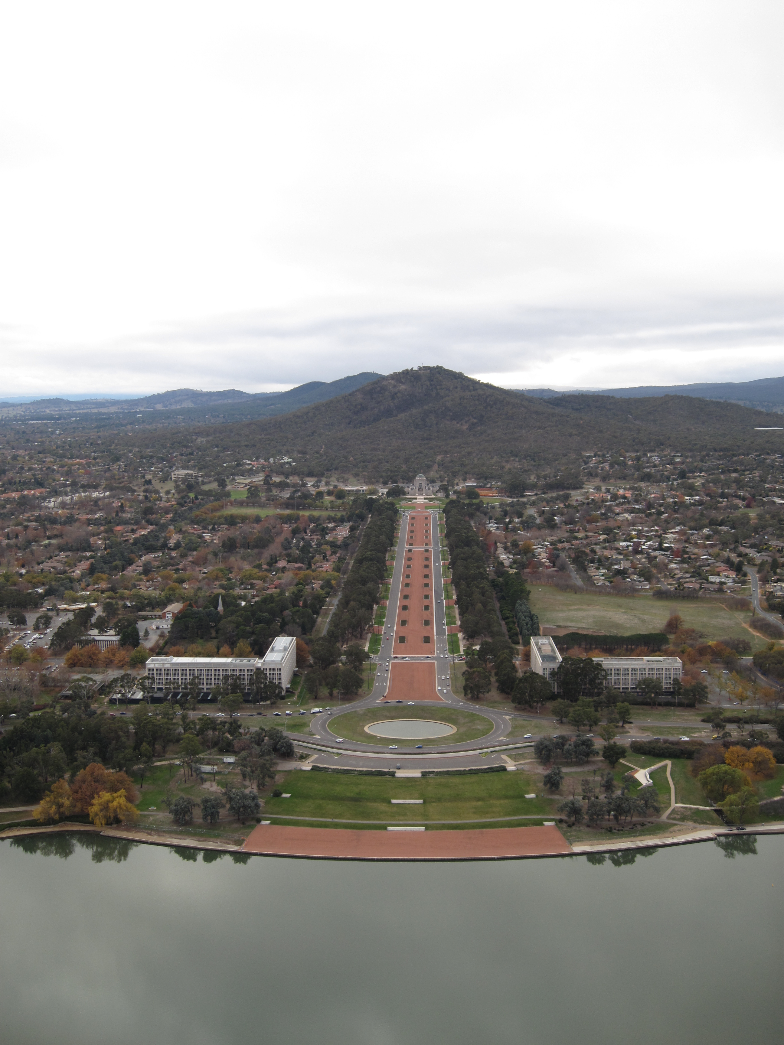 Looking up Anzac Pde from the balloon.